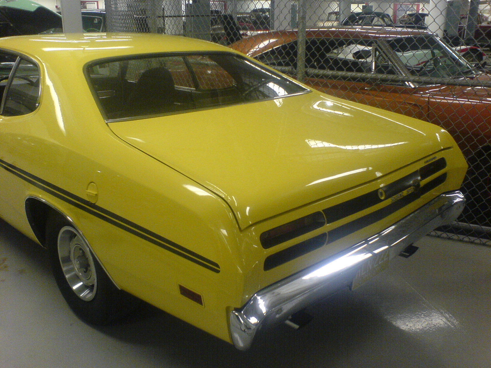 I took this picture.